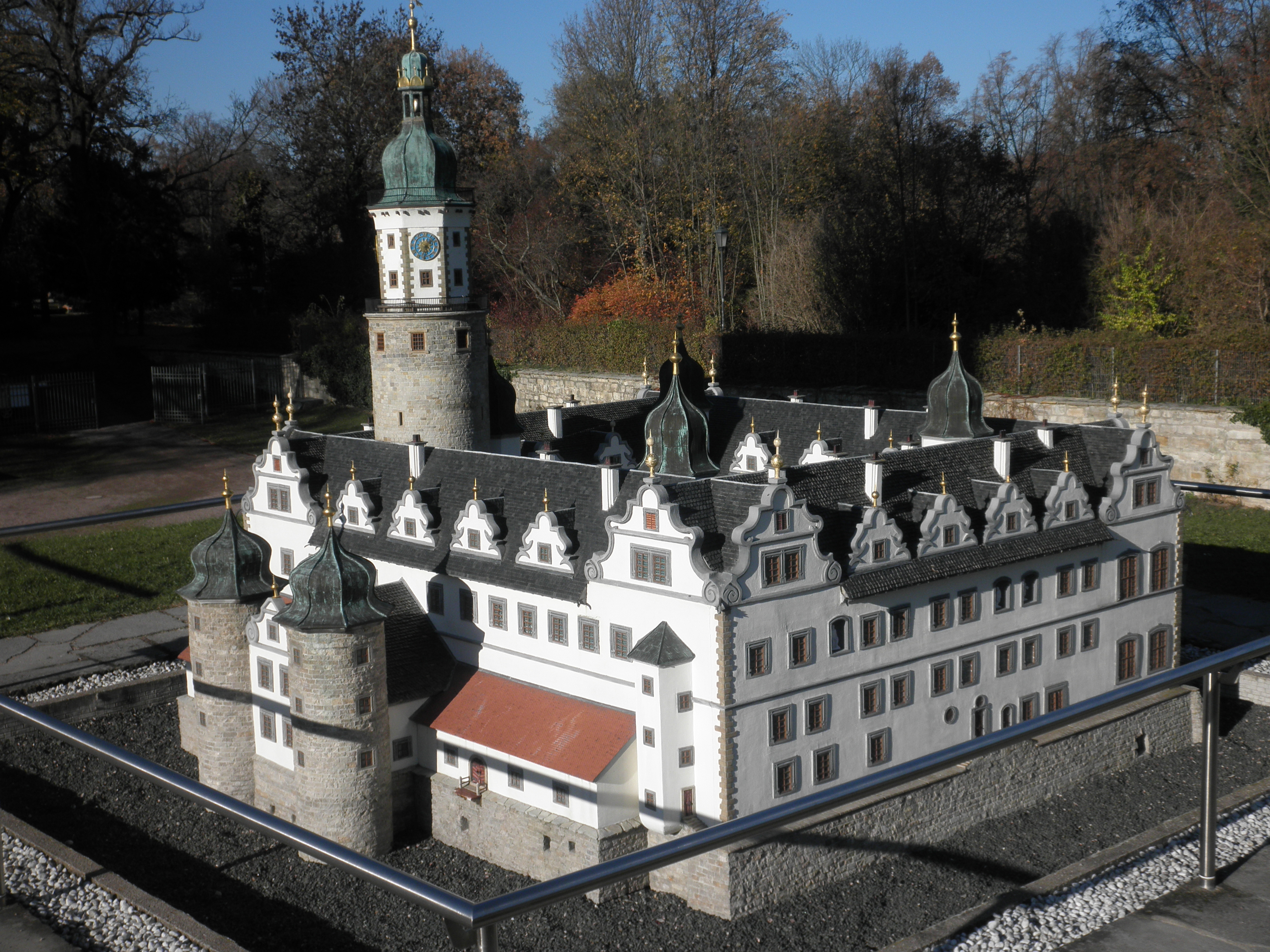 Castle Neideck (Modell) in Arnstadt in Thuringia